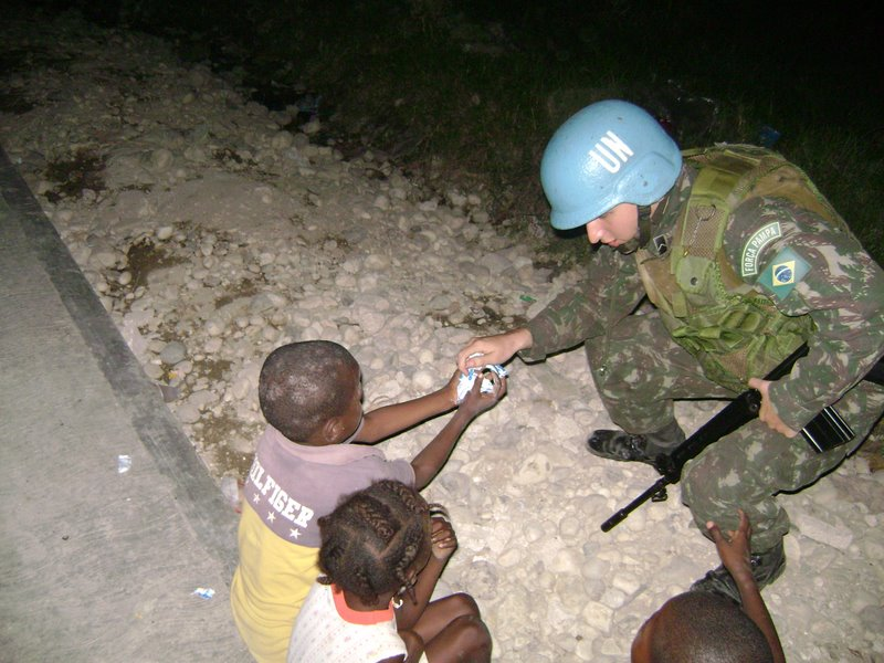 Brazilian Soldier on UN forces in Haiti 2007 delivering candies during humanitary mission